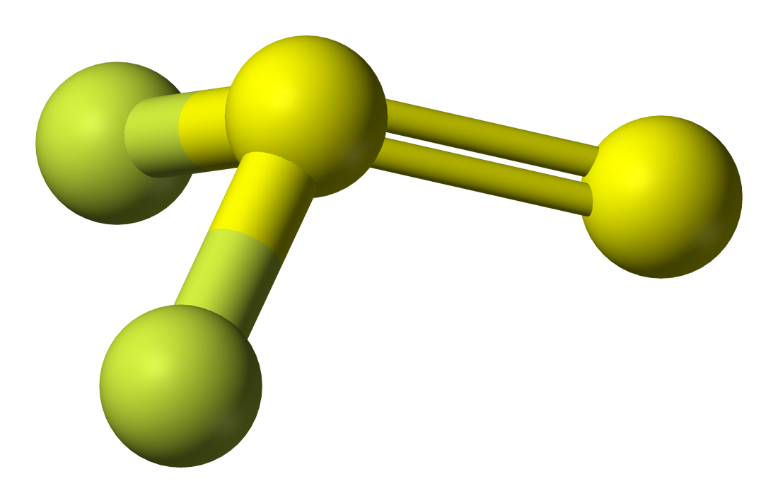 Ball-and-stick model of the thiothionyl fluoride molecule, F2S=S. Bond lengths and angles from Greenwood, N. N.; Earnshaw, A. (1997) Chemistry of the Elements (2nd ed.), Oxford:Butterworth-Heinemann ISBN: 0-7506-3365-4. Image generated in Accelrys DS Visualizer.